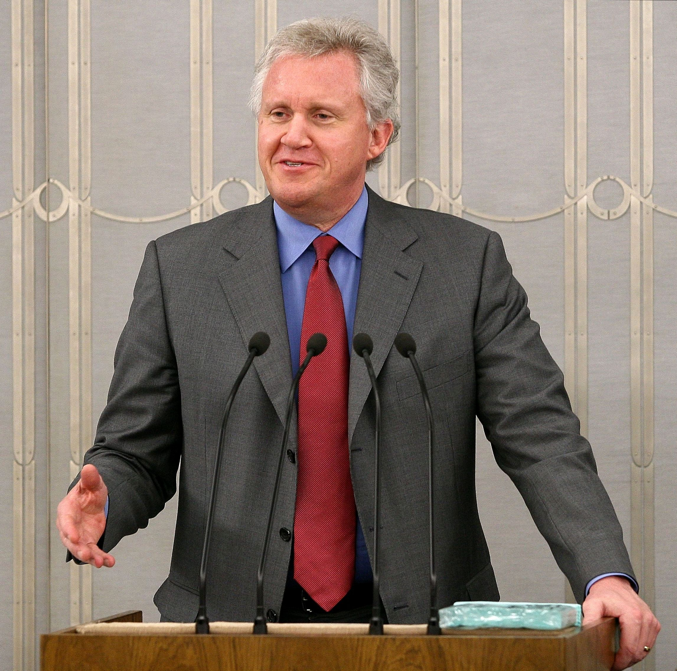 CEO of General Electric Jeffrey R. Immelt in the Polish Senate